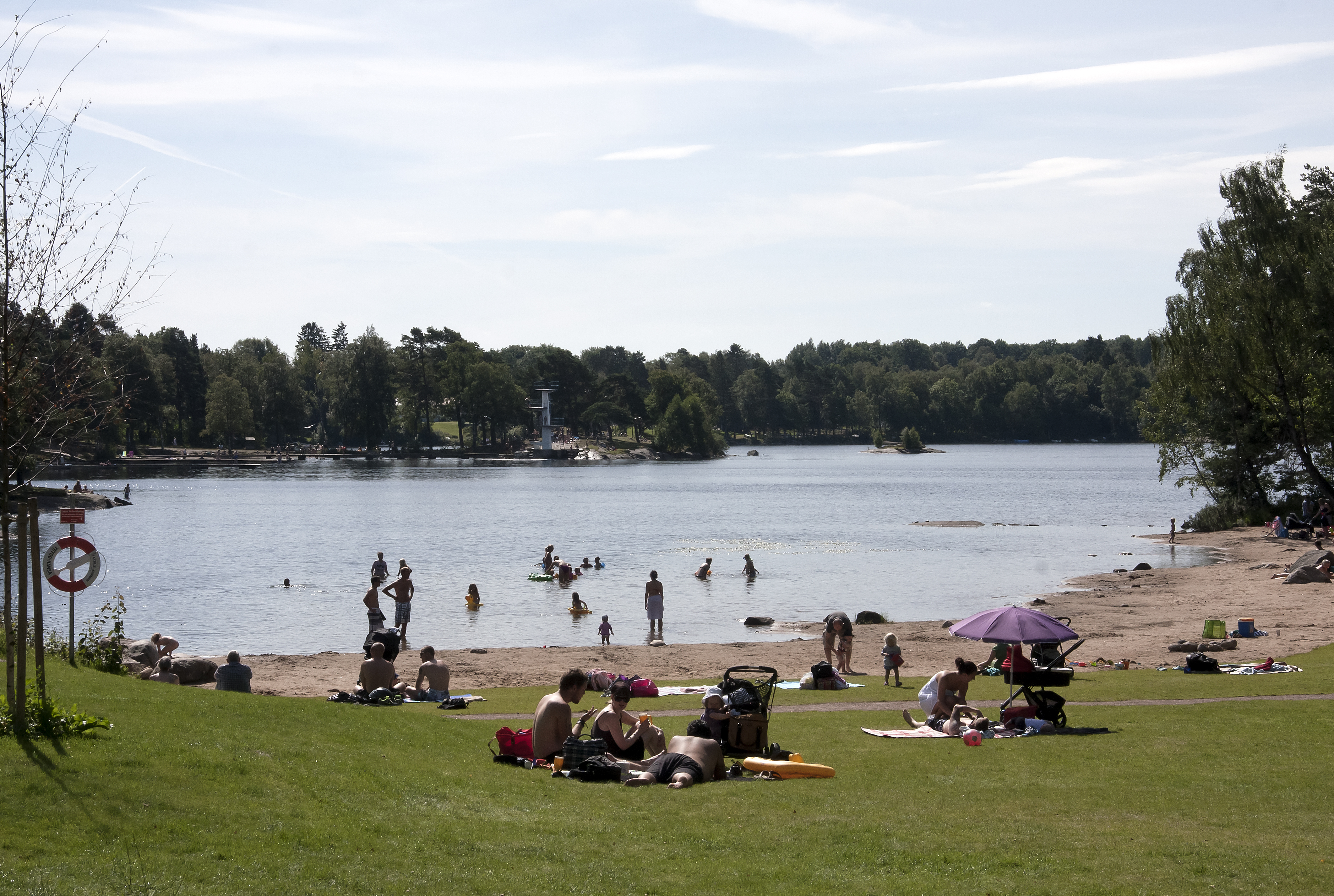 Lake Kåsjön in Partille, Sweden.